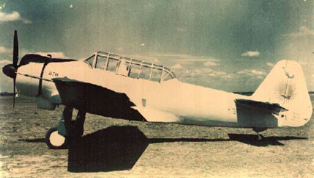 I believe this image is in the public domain, probably from any of the public archives in Argentina, but do not have evidence of this. (DPdH 08:48, 24 March 2007 (UTC))As with the rest of the pics that I've uploaded, I believe this is in the "Public Domain" because of their age (1945) and its presumed original source ("Archivo Gráfico de la Nación", a government agency in Argentina). This pic was obtained from the website referenced in the I.Ae. 22 "DL" wikiarticle. That website has a "disclaimer" paragraph in the home page that roughly says: "" the 3-views an histories of the aricraft in this site have been taken from "Revista Nacional Aeronáutica y Espacial" June 1962 issue. The authors of that article were Eduardo Ferreti y Federico Giró ""